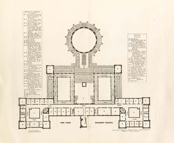 Plan of the original central parliament building. From "hand book to the parliamentary and departmental buildings, Canada : with plans of the buildings indicating the several offices and the names of the officials... also lists of members of the Privy Council, local governments, senators, members of the House"